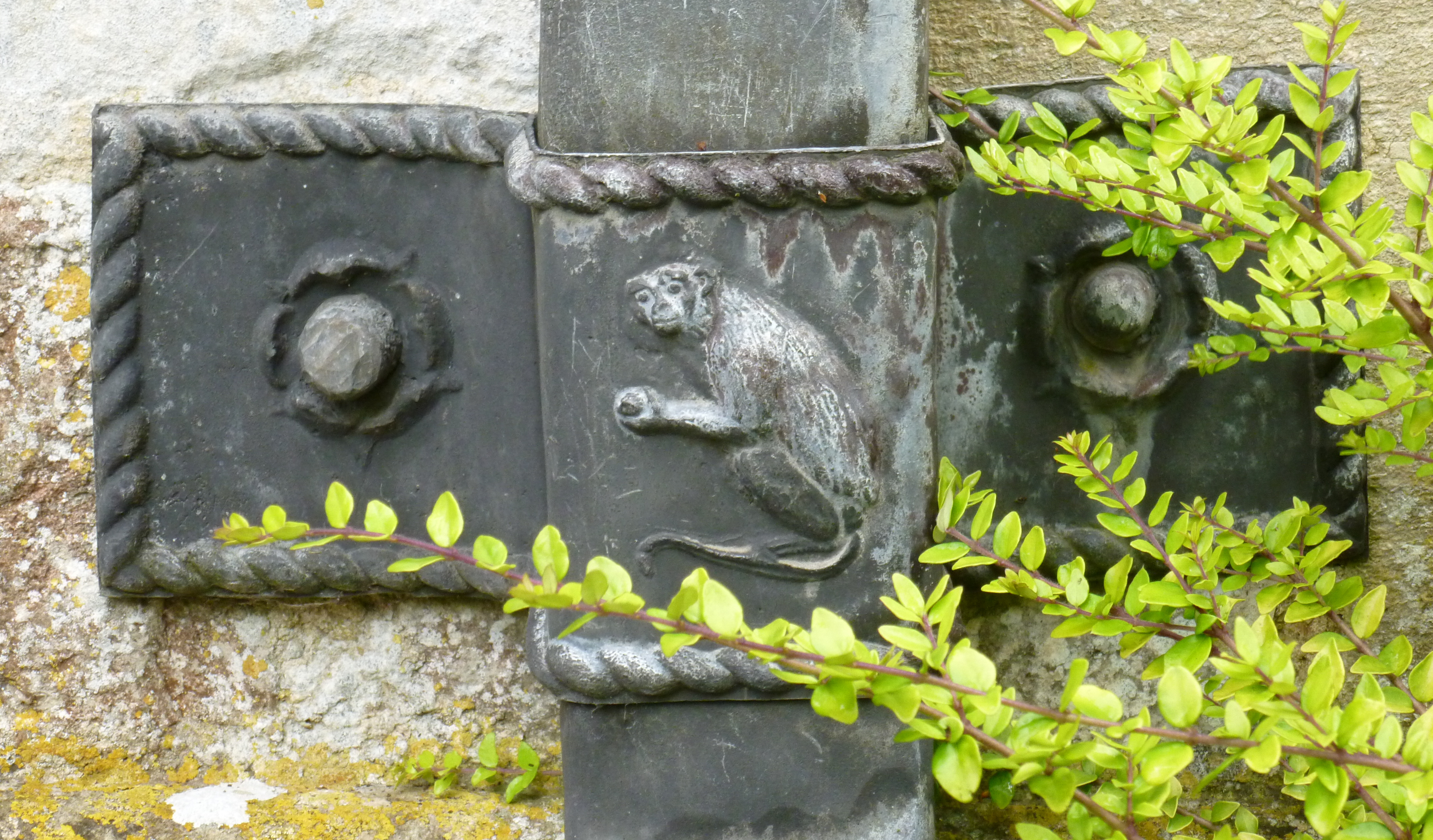 Monkey Downpipe at Rodmarton Manor